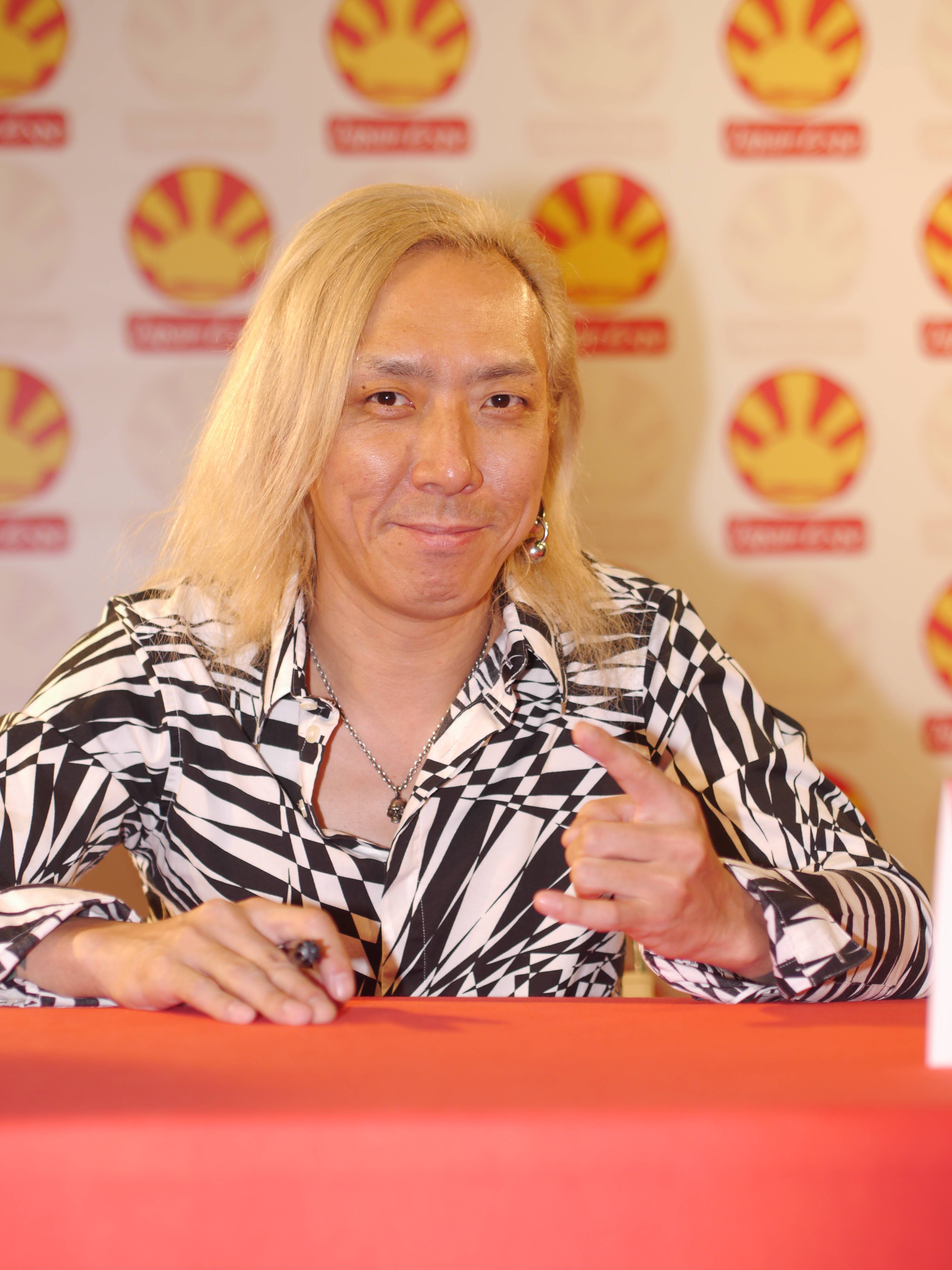 Japan Expo Festival, 13th impact